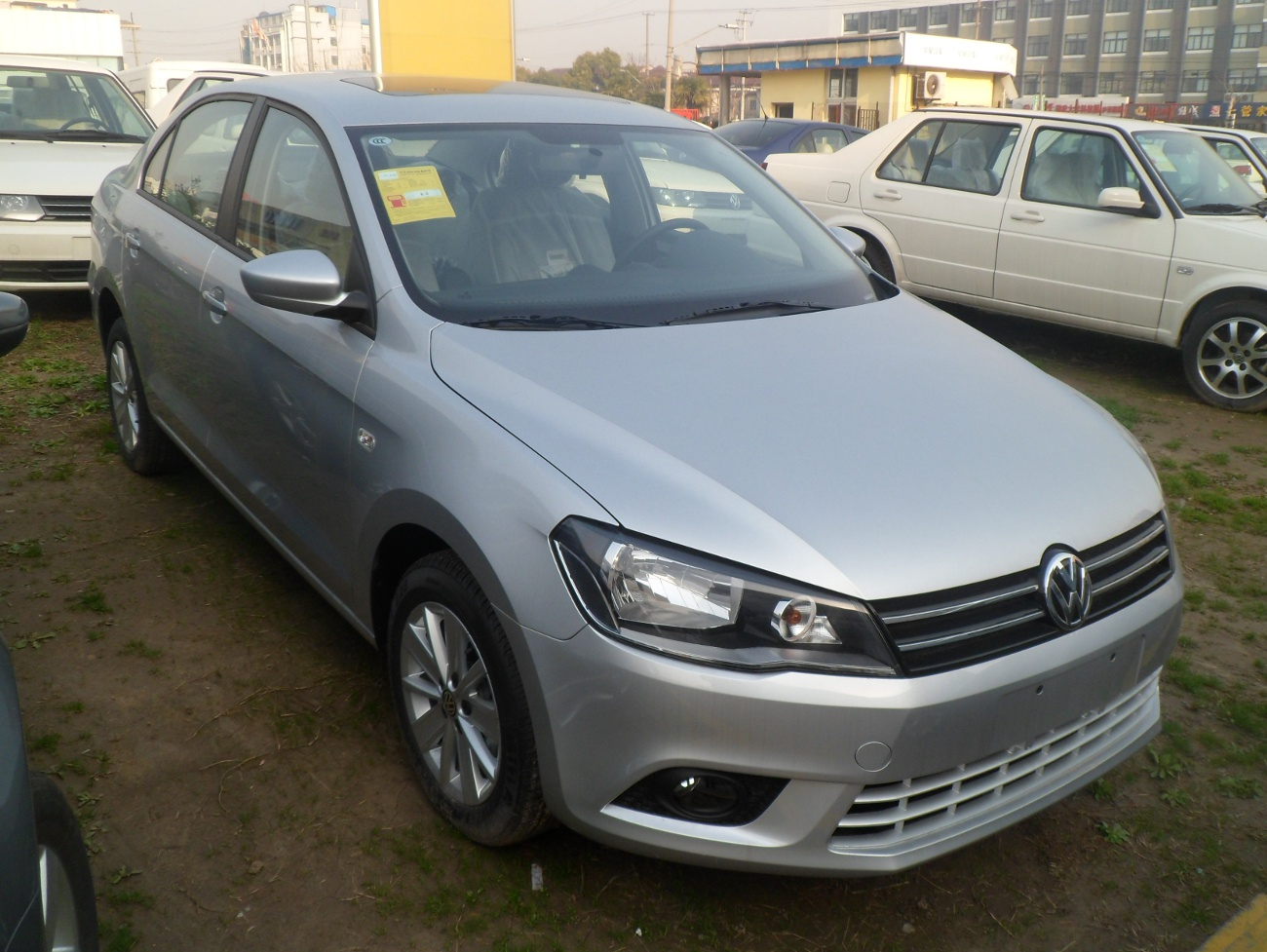 Volkswagen Jetta CN II photographed in Shanghai, China.